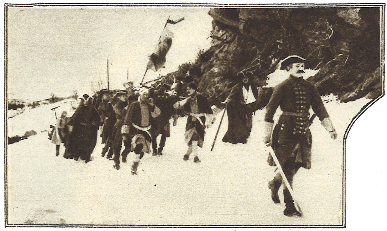 Scene from the 1925 Swedish historical epic film Karl XII/senare delen (= Charles XII, part 2; 1925), directed by John W. Brunius.